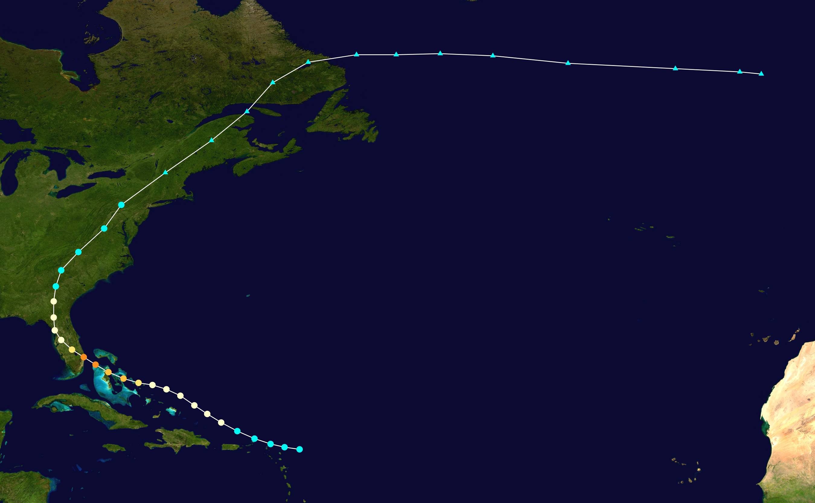 1949 Atlantic hurricane 2 track. Uses the color scheme from the Saffir-Simpson Hurricane Scale.